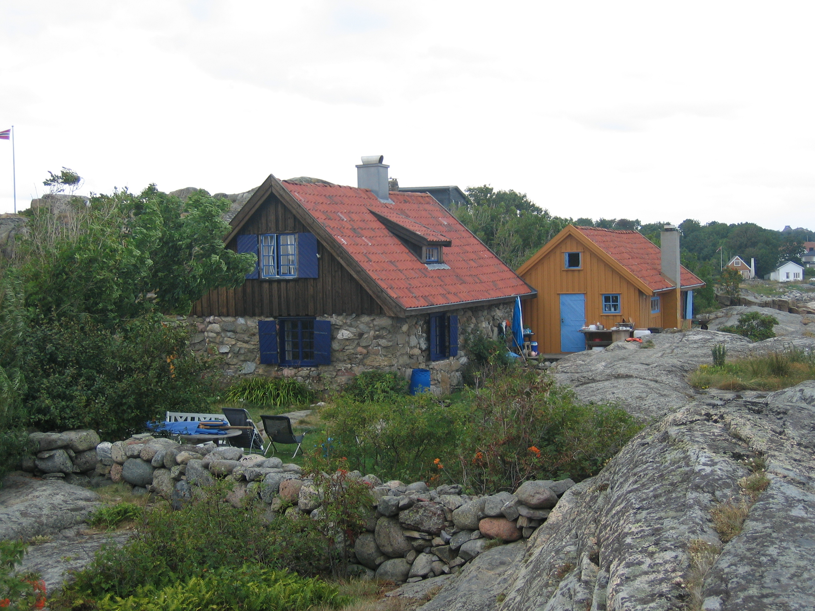 Cottage built of stone, Steinane eller Humlesekken, Tjøme, Norway. Protected by law.